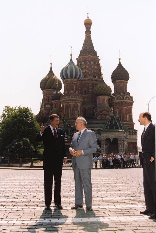 C47345-10, President Reagan and Soviet General Secretary Gorbachev in Red Square during the Moscow Summit. 5/31/88.